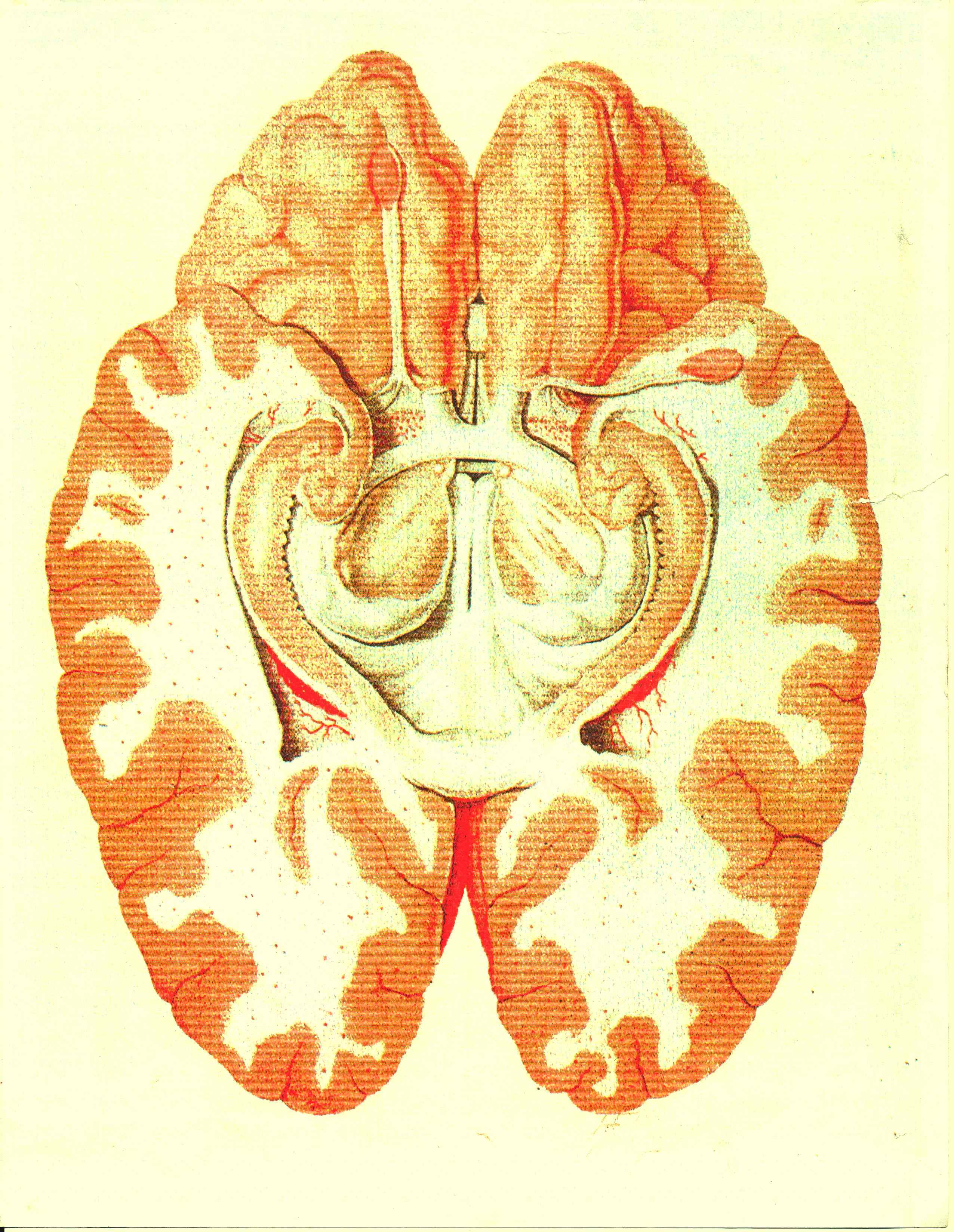 Drawing of brain